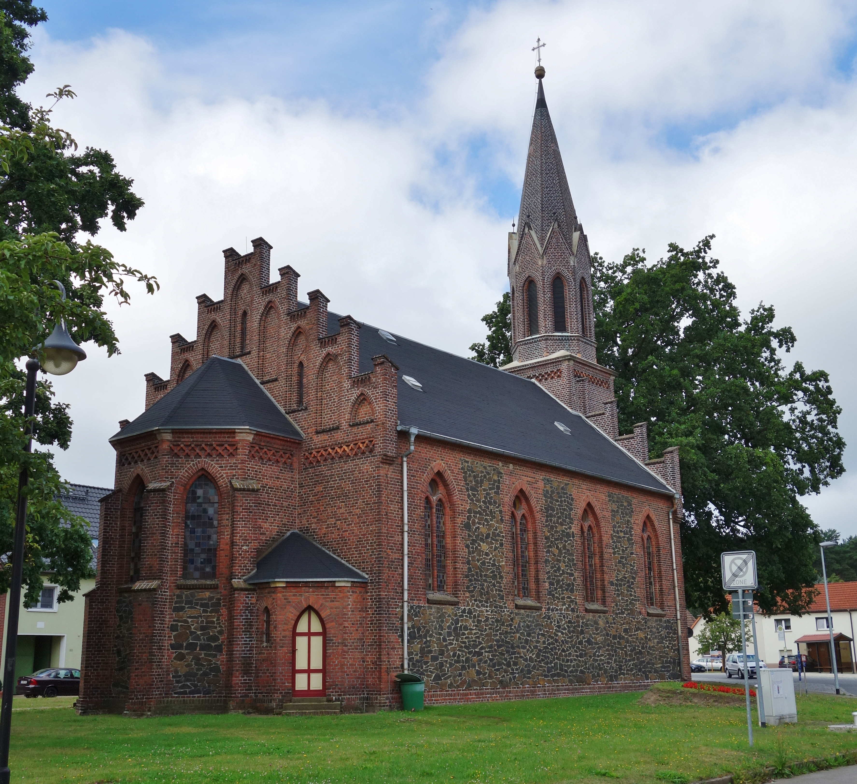 North-eastern view of church in Großkoschen, Senftenberg municipality, Oberspreewald-Lausitz district, Brandenburg state, Germany.